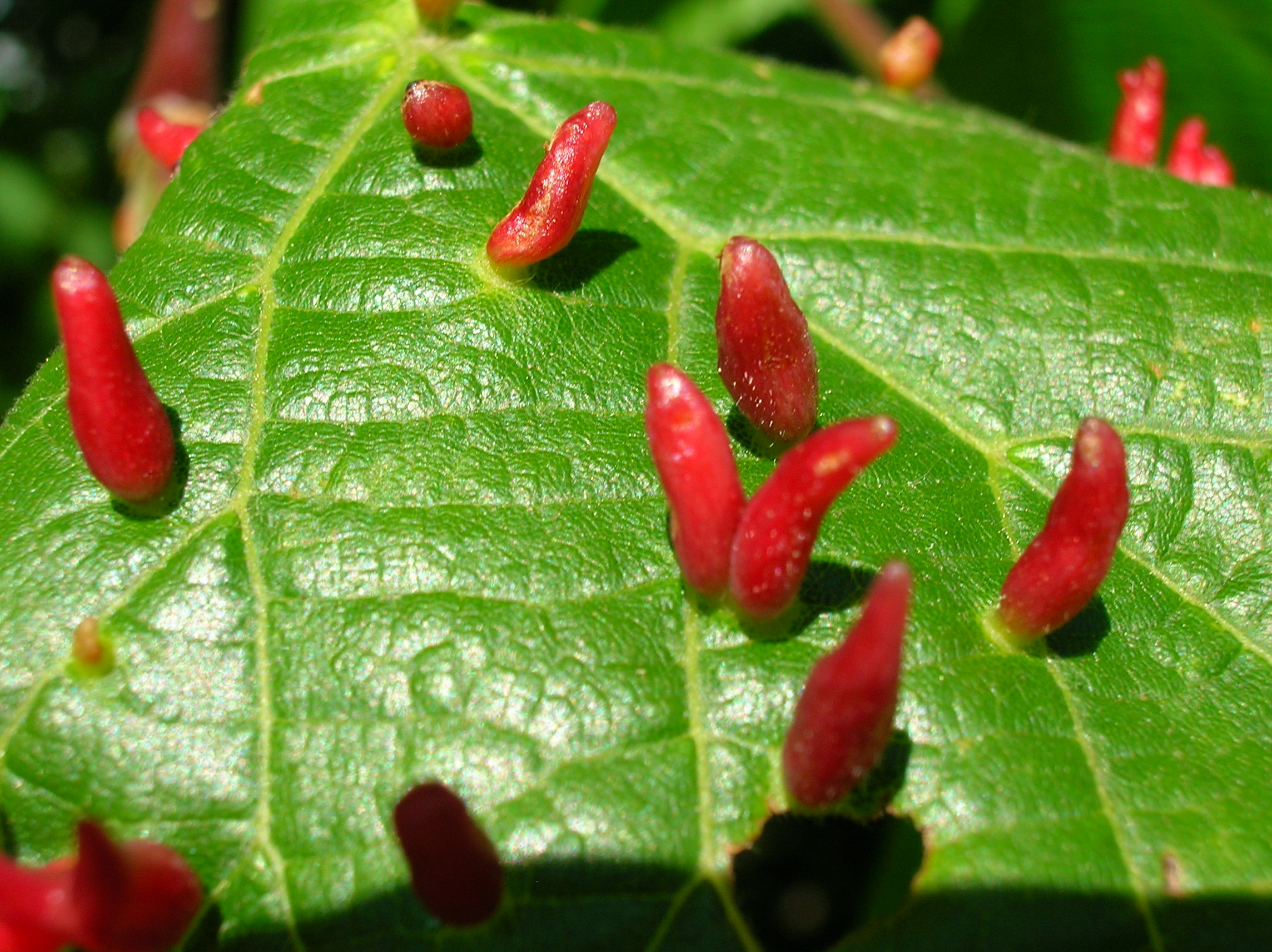 Eriophyes tiliae tiliae (Lime Nail Gall) on Tilia × europaea. Mature galls on leaf upper epidermis. Eglinton, North Ayrshire, Scotland.